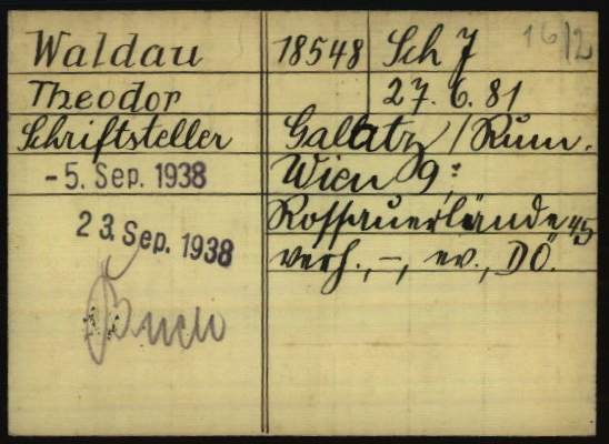 Registration card of Theodor Waldau as a prisoner at Dachau Nazi Concentration Camp. Penciled note (bottom left) signals the date Waldau was transferred to Buchenwald.